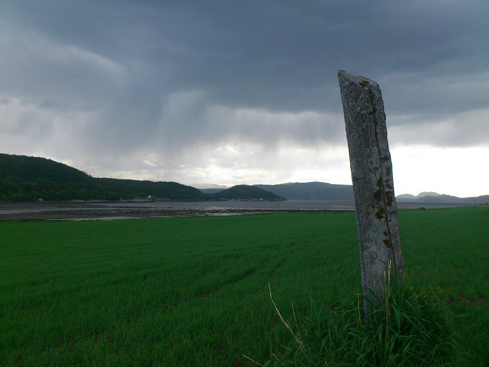 standing stone i Hasselvika, Norway